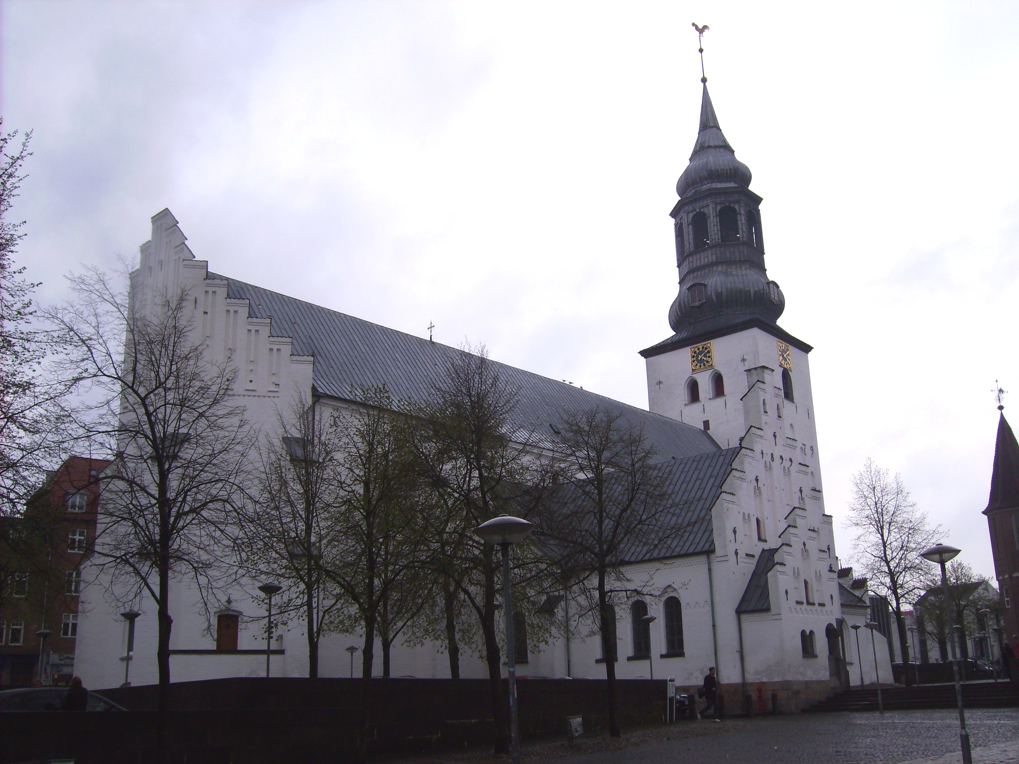 Budolfi Church in Aalborg, Denmark.